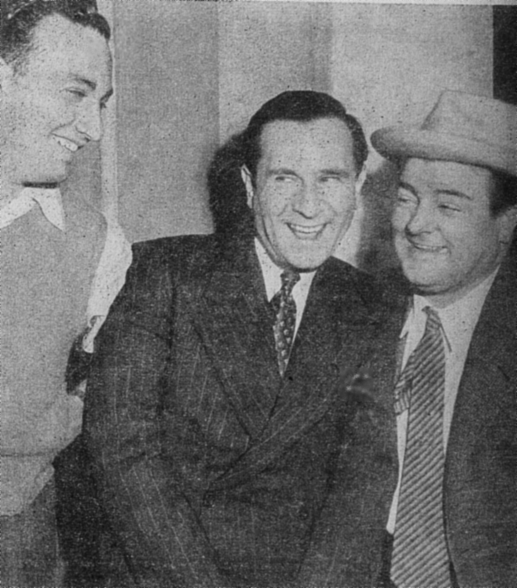 Budd Abbott (left), director S. Sylvan Simon (center) and Bud Costello (right), in filming "Rio Rita", 1942.